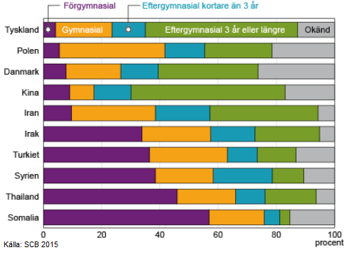 Education levels among 2000-2013 immigrants to Sweden per country of birth Purple: primary education Yellow: secondary education Blue: less than 3 years post secondary educations Green: more than 3 years post secondary educations